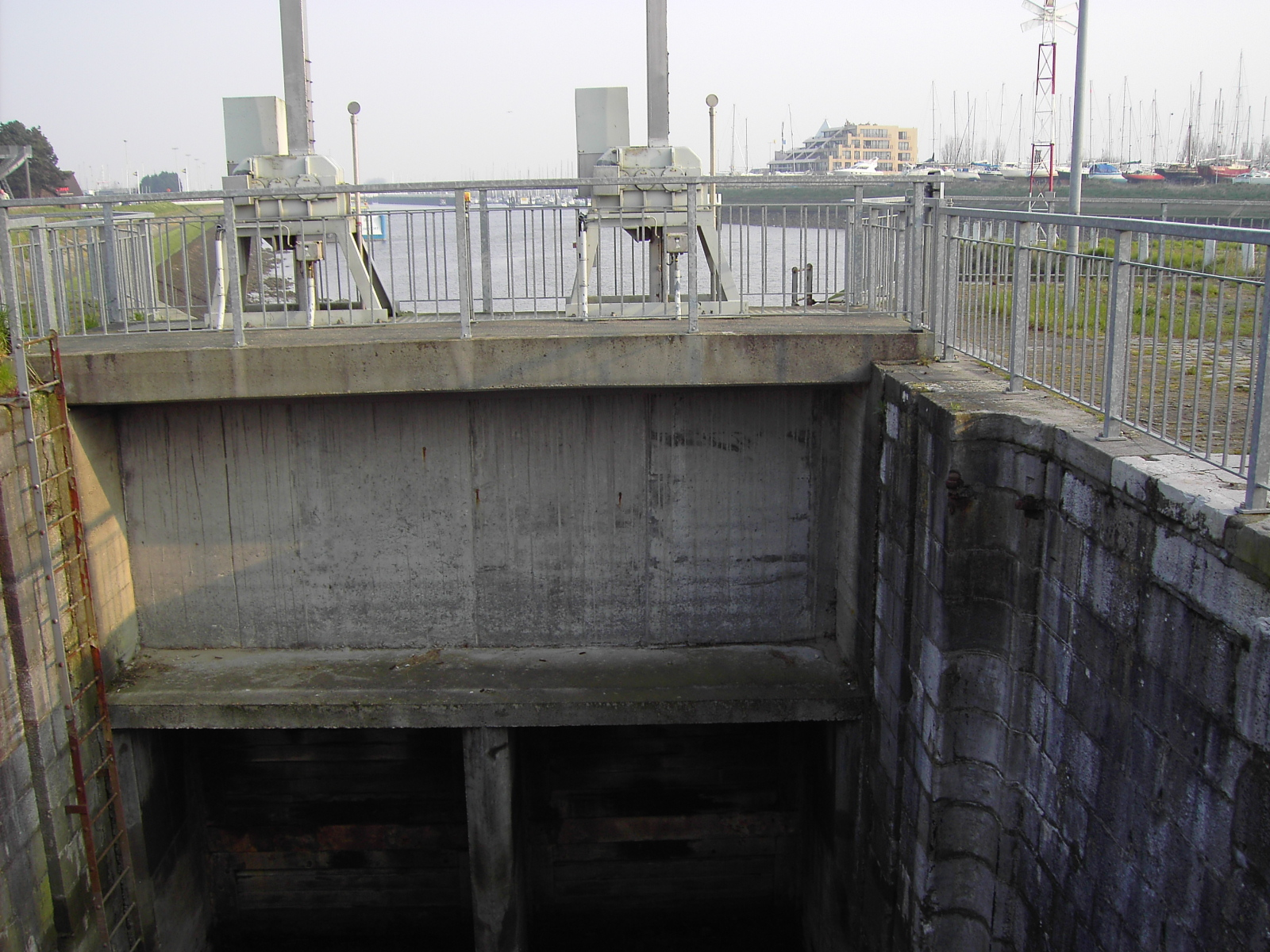 Floodgate on the Oude Veurnevaart. The hinged flapdoor